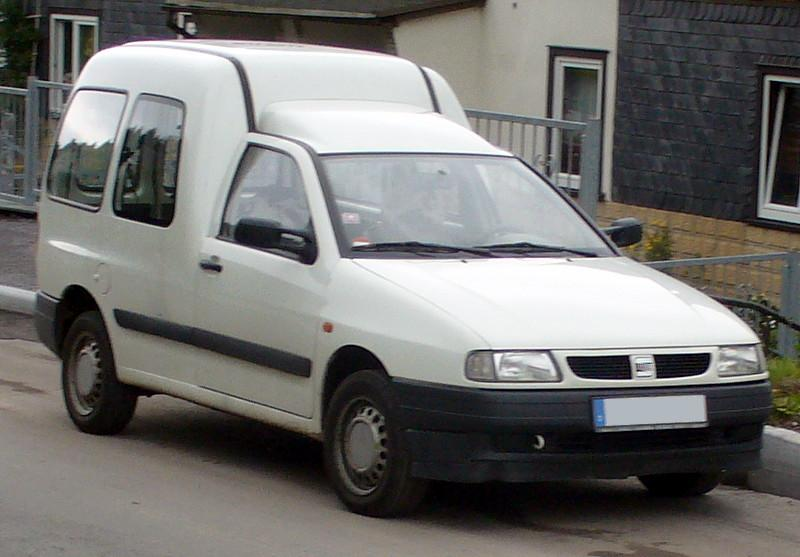 Seat Inca